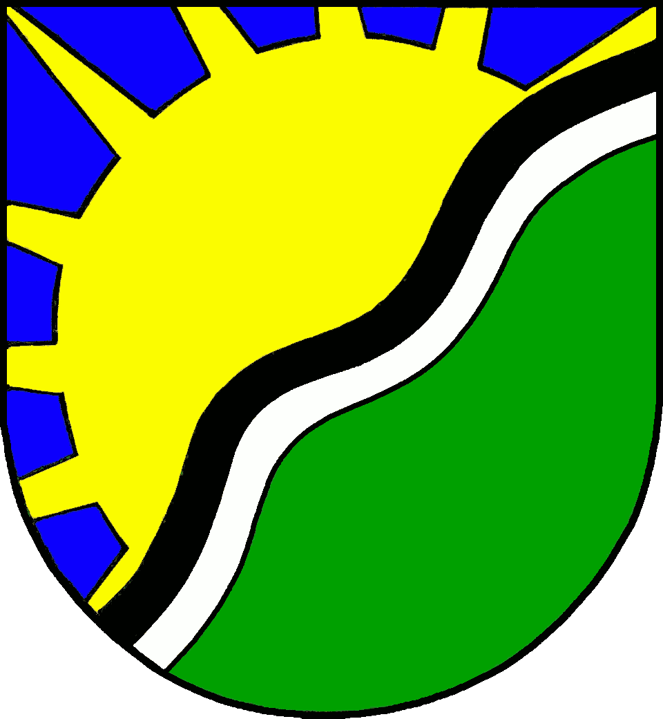 Coat of arms of the municipality Sommerland in Schleswig-Holstein, Germany.